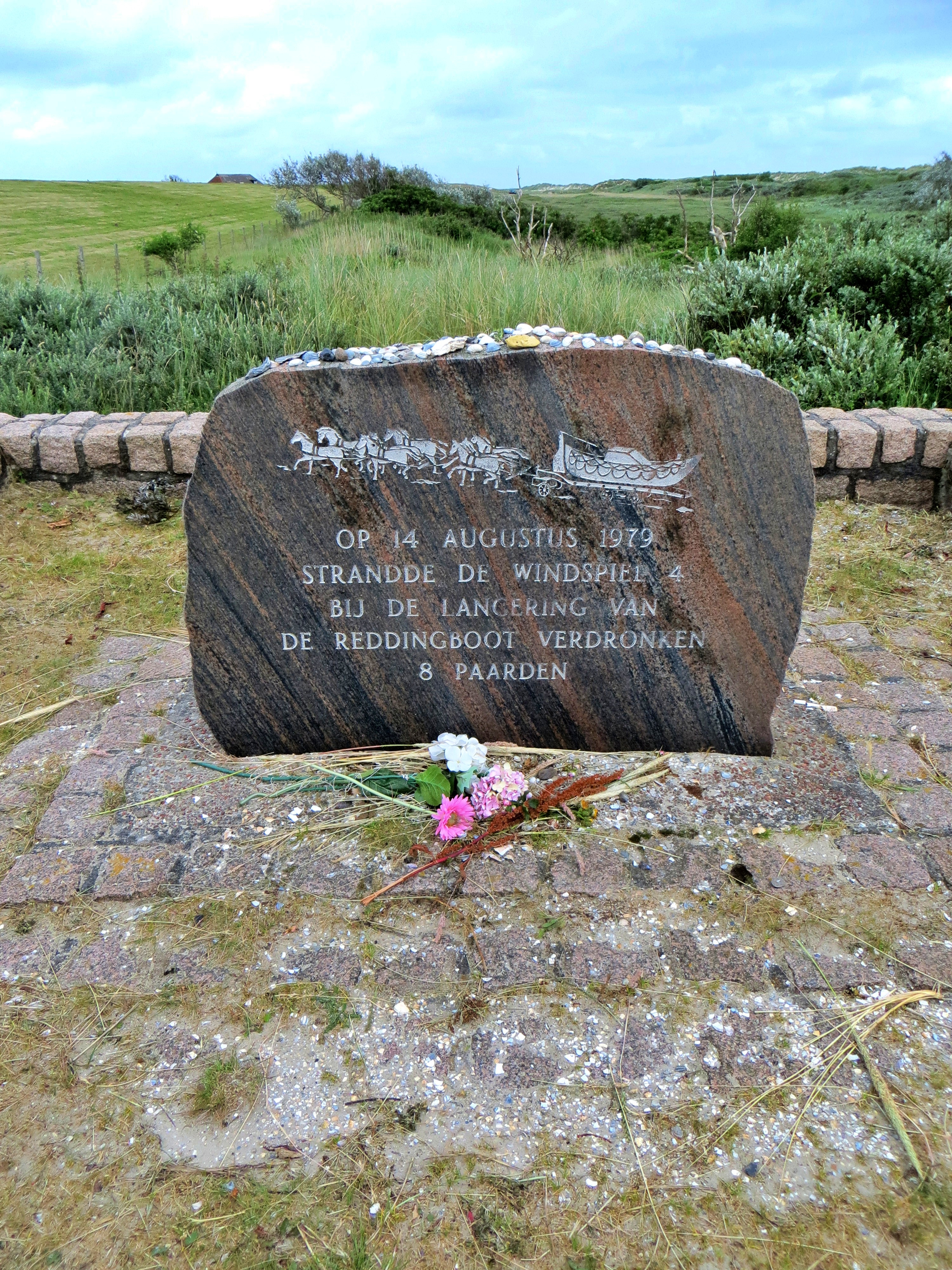 Tombstone of eight horses buried in the dunes at Hollum/Ameland (The Netherlands)